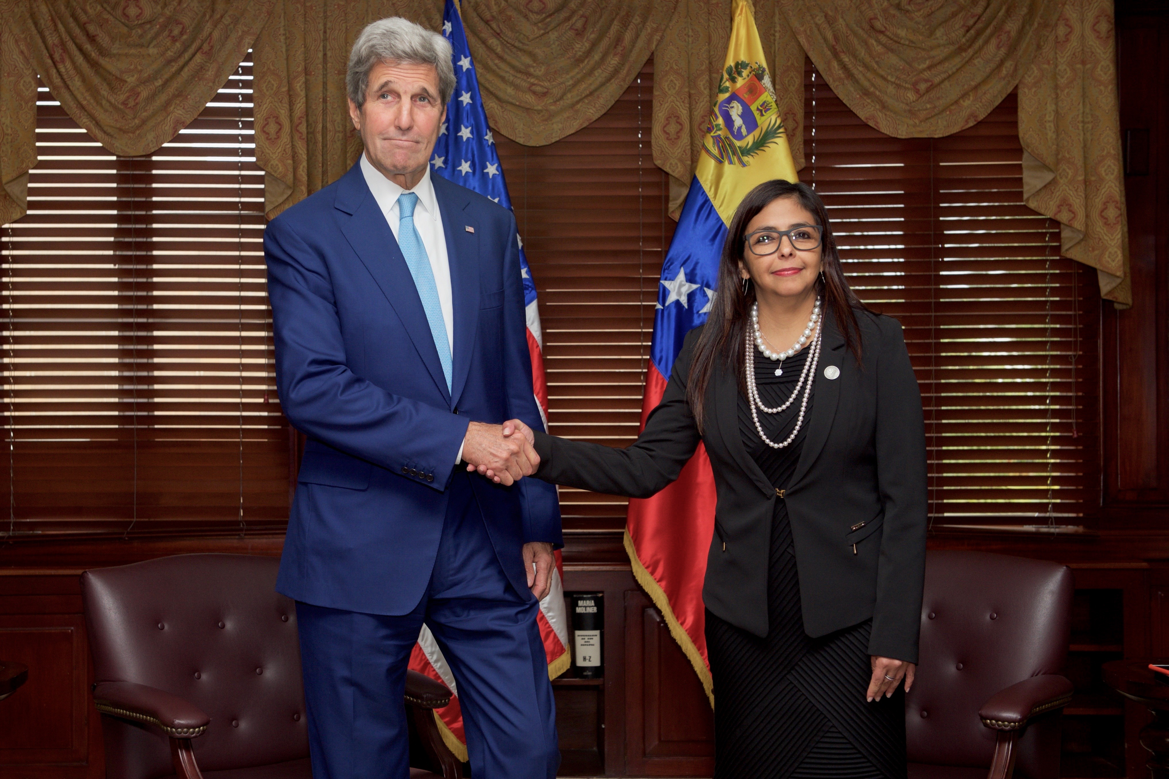 U.S. Secretary of State John Kerry shakes hands with Venezuelan Foreign Minister Delcy Rodriguez on June 14, 2016, at the Ministry of Foreign Affairs in Santo Domingo, Dominican Republic, before they held a bilateral meeting on the sidelines of the annual Organization of American States General Assembly. [State Department photo/ Public Domain]